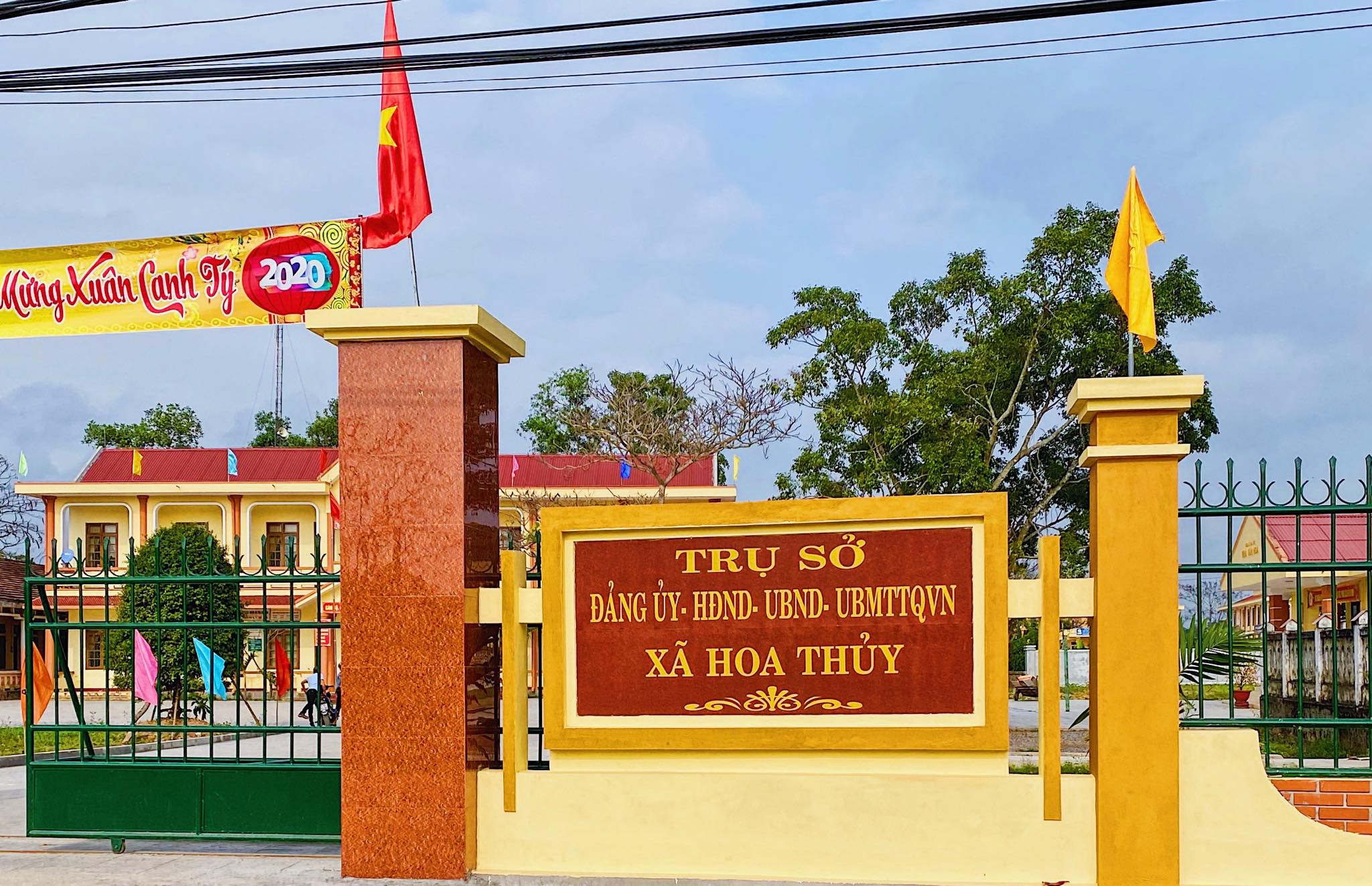 xahoathuyy